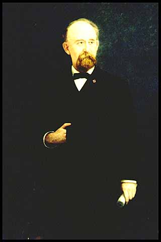 Oil painting of Lucius F. Hubbard Painter: Carl Gutherz (1844-1907) Art Collection, oil 1897 Location no. AV1996.0.10 Negative no. 85122